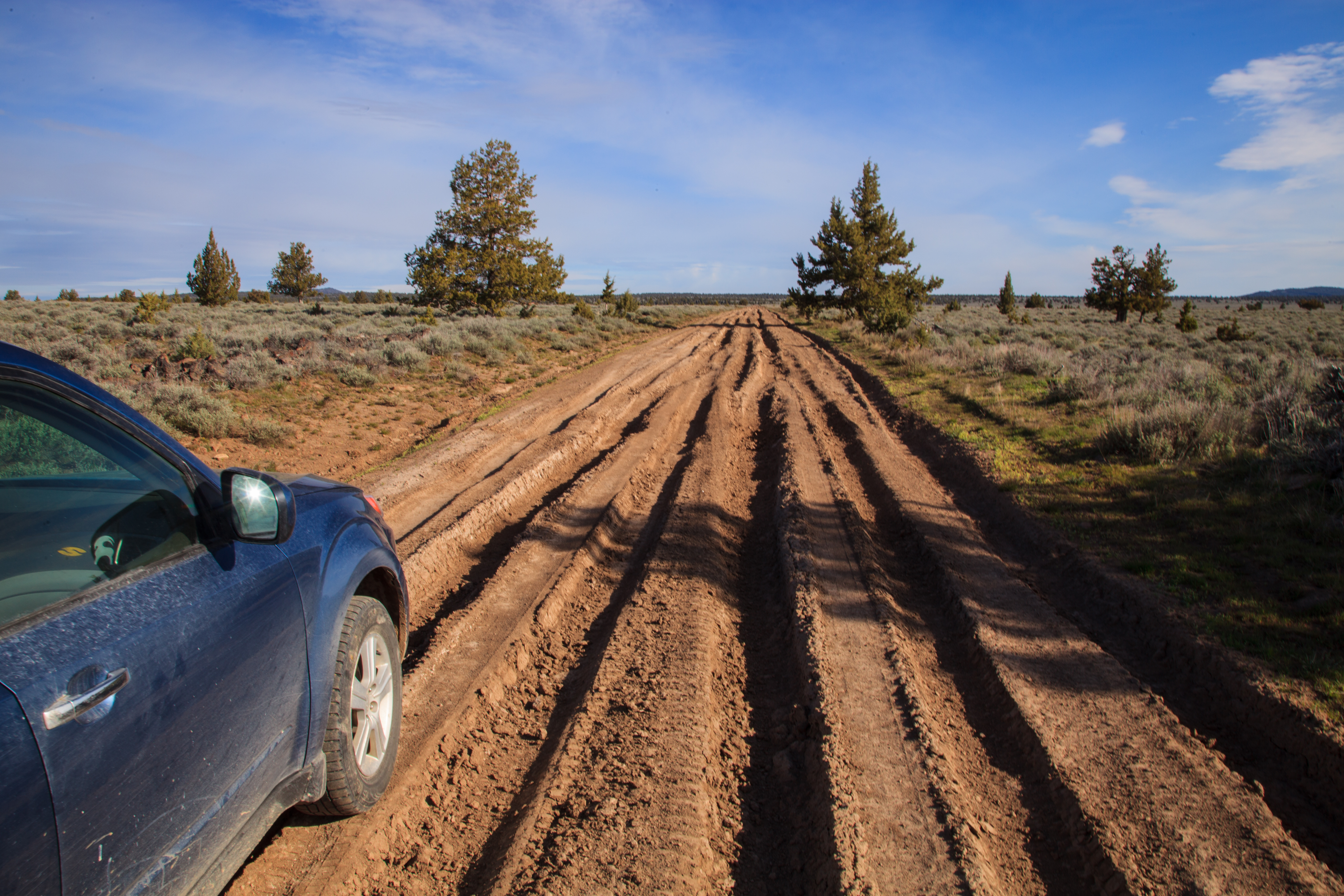 the way home from Christmas dunes...two and ahalf hours to go 80 km...killer ruts